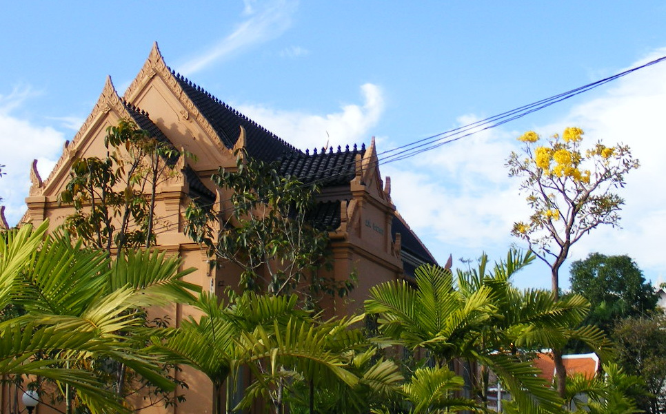 Wat Mahathat Yuwaratrangsarit of Thailand Location: Bangkok, Thailand.